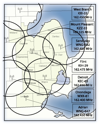 NOAA weather radio map Uploaded from NOAA web site, located at here Captioned as NOAA Weather Radio Example NOAA weather radio coverage for Eastern Michigan.